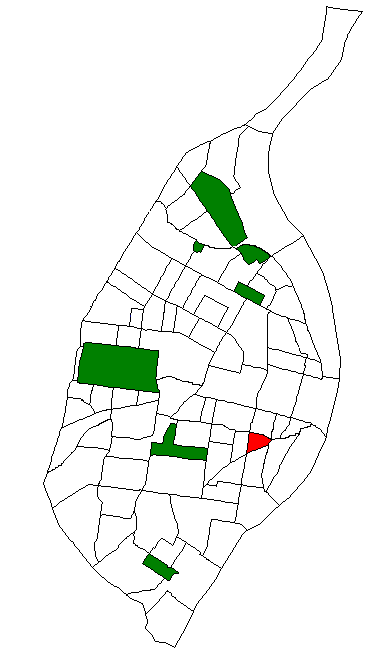 Map of St. Louis Neighborhood #23